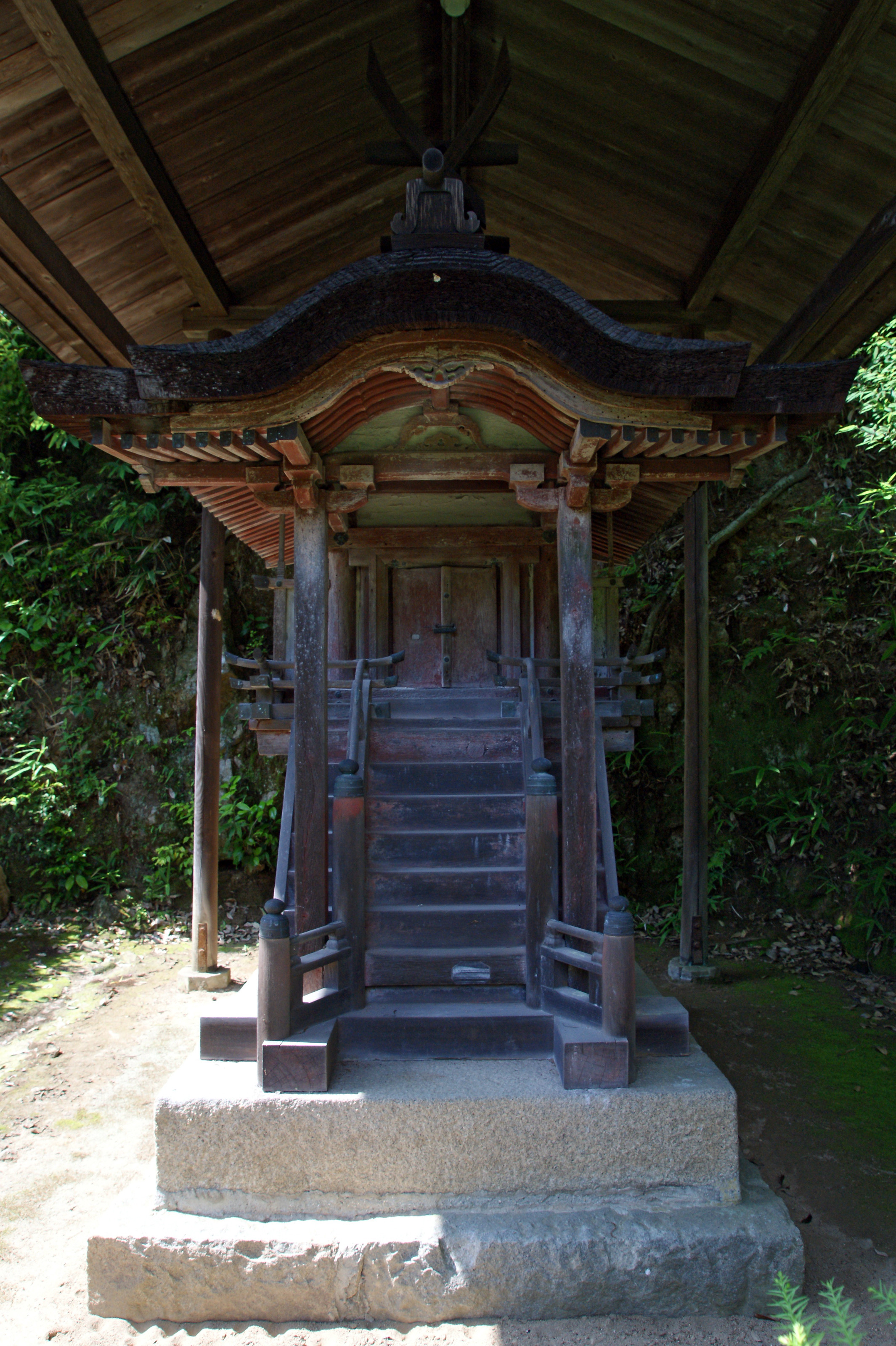 Enjoji in Nara, Nara prefecture, Japan